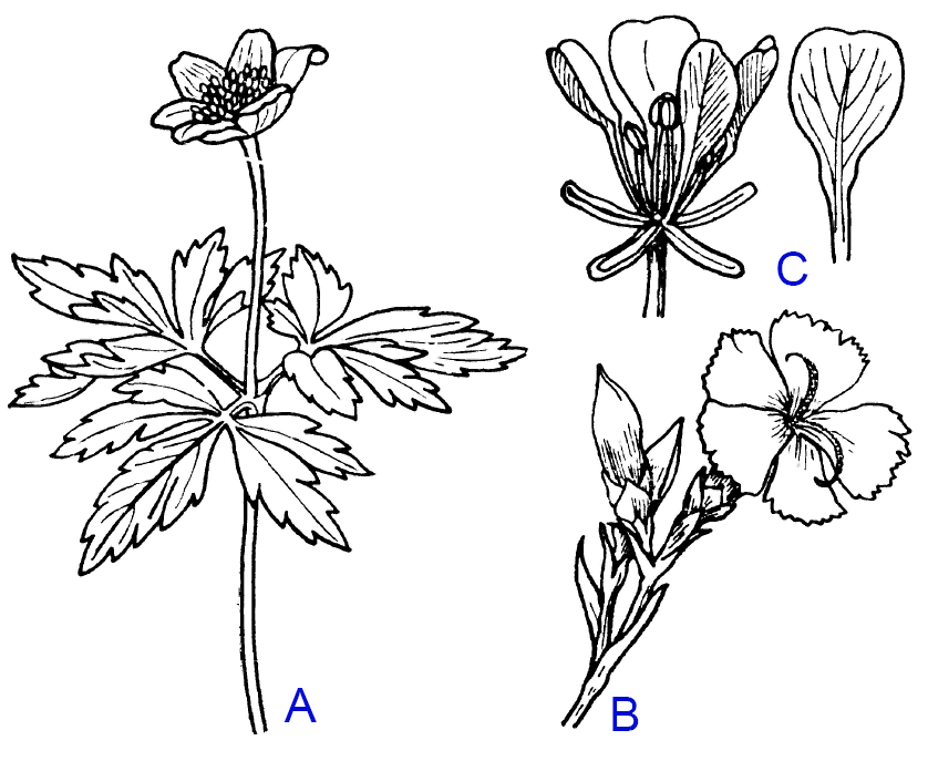 Dialypetalous corolla